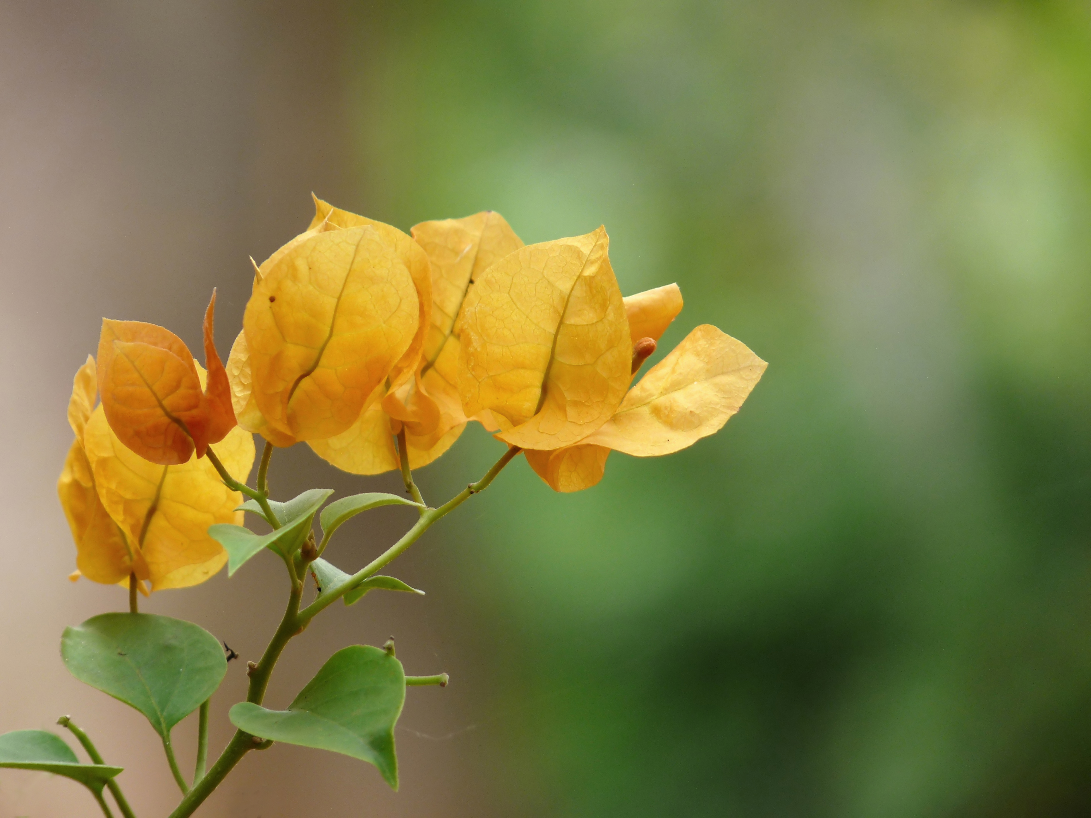 Bougainvillea glabra, Paper Flower, also known as Lesser bougainvillea, is a species of Bougainvillea and is the most common species of bougainvillea used for bonsai. It can be easily grown as a hedge, an arch or a tree on the ground and in pots. They are thorny, woody vines growing anywhere from 1 to 12 m (3 to 40 ft.) tall, scrambling over other plants with their spiky thorns. The actual flower of the plant is small and generally white, but each cluster of three flowers is surrounded by three or six bracts with the bright colours associated with the plant, including pink, magenta, purple, red, orange, white, or yellow. Bougainvillea glabra is sometimes referred to as "paper flower" because the bracts are thin and papery. The fruit is a narrow five-lobed achene.